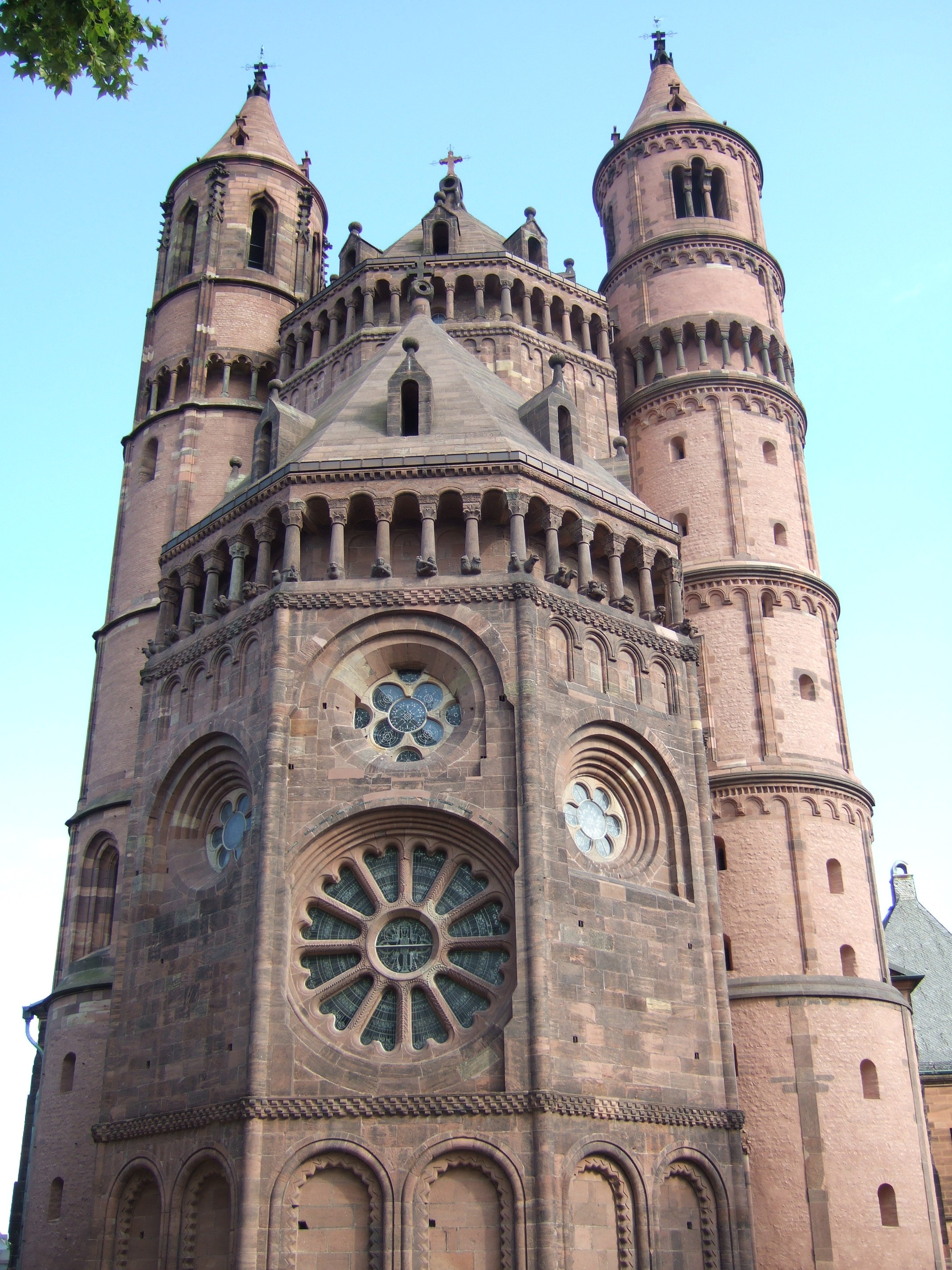 View of the Worms Cathedral from the apse sector